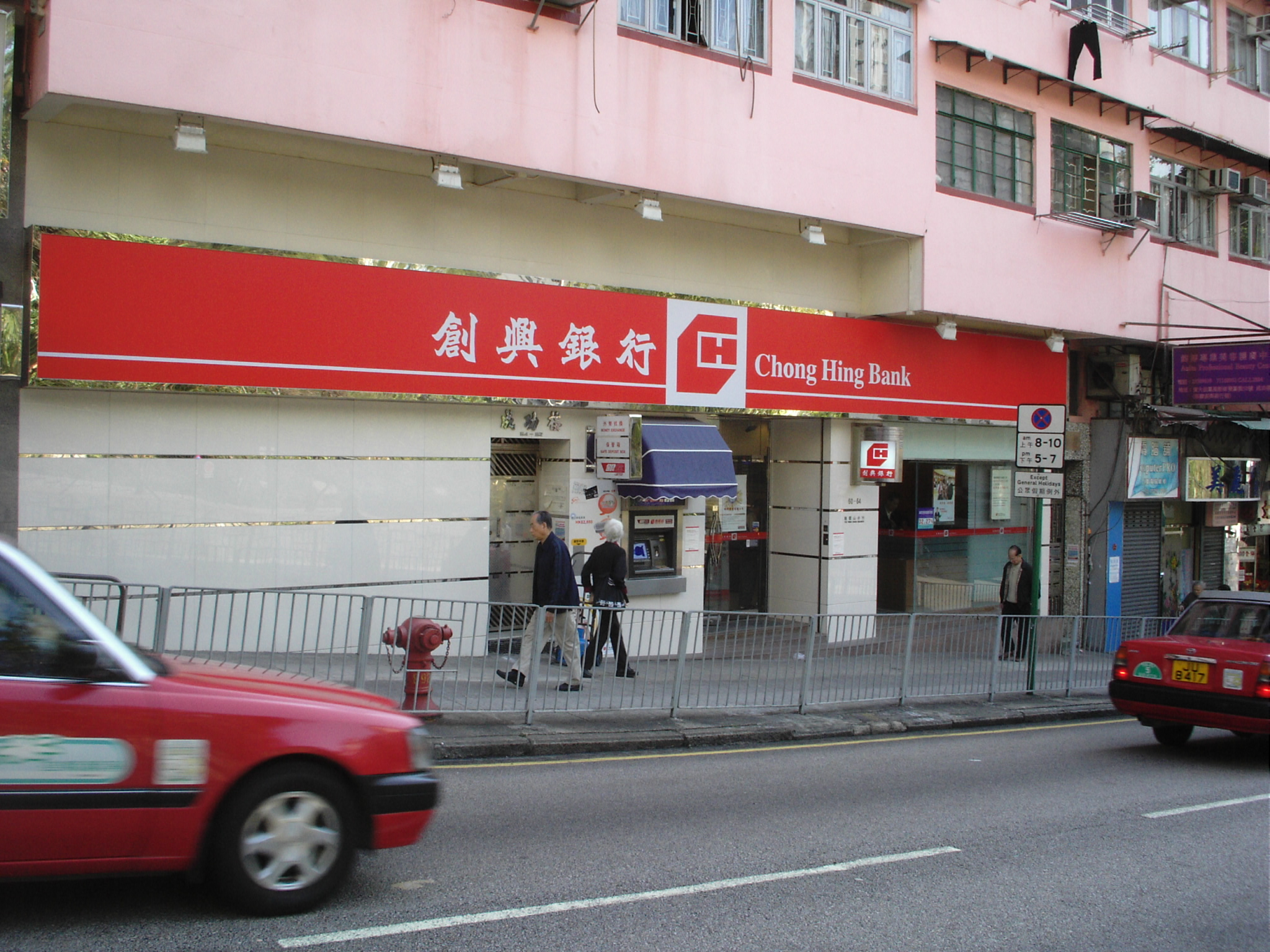 Chong Hing Bank Branch in Tsz Wan Shan